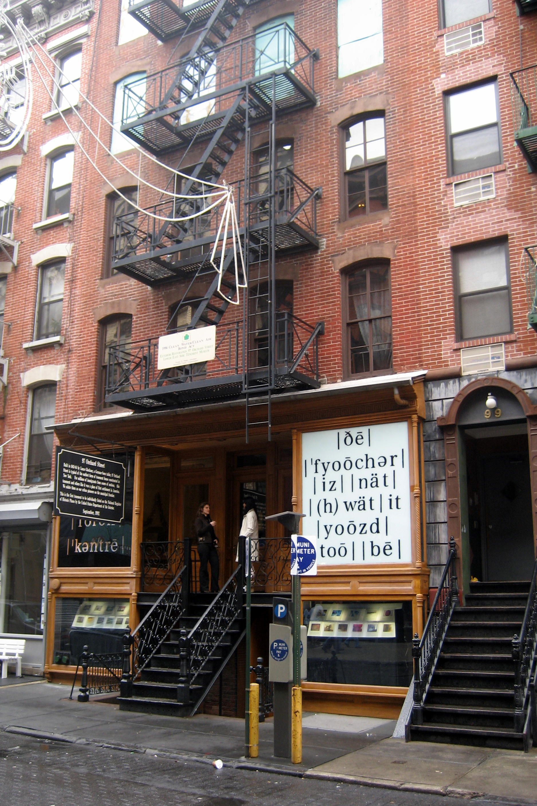 97 Orchard Street, Lower East Side Tenement Museum, Lower East Side, Manhattan. The sign at right shows the sentence "The future is not what it used to be" written in dictionary pronunciation symbols, with some mistakes (in the relevant meaning, the word "used" is pronounced /yoost/, not /yoozd/)...